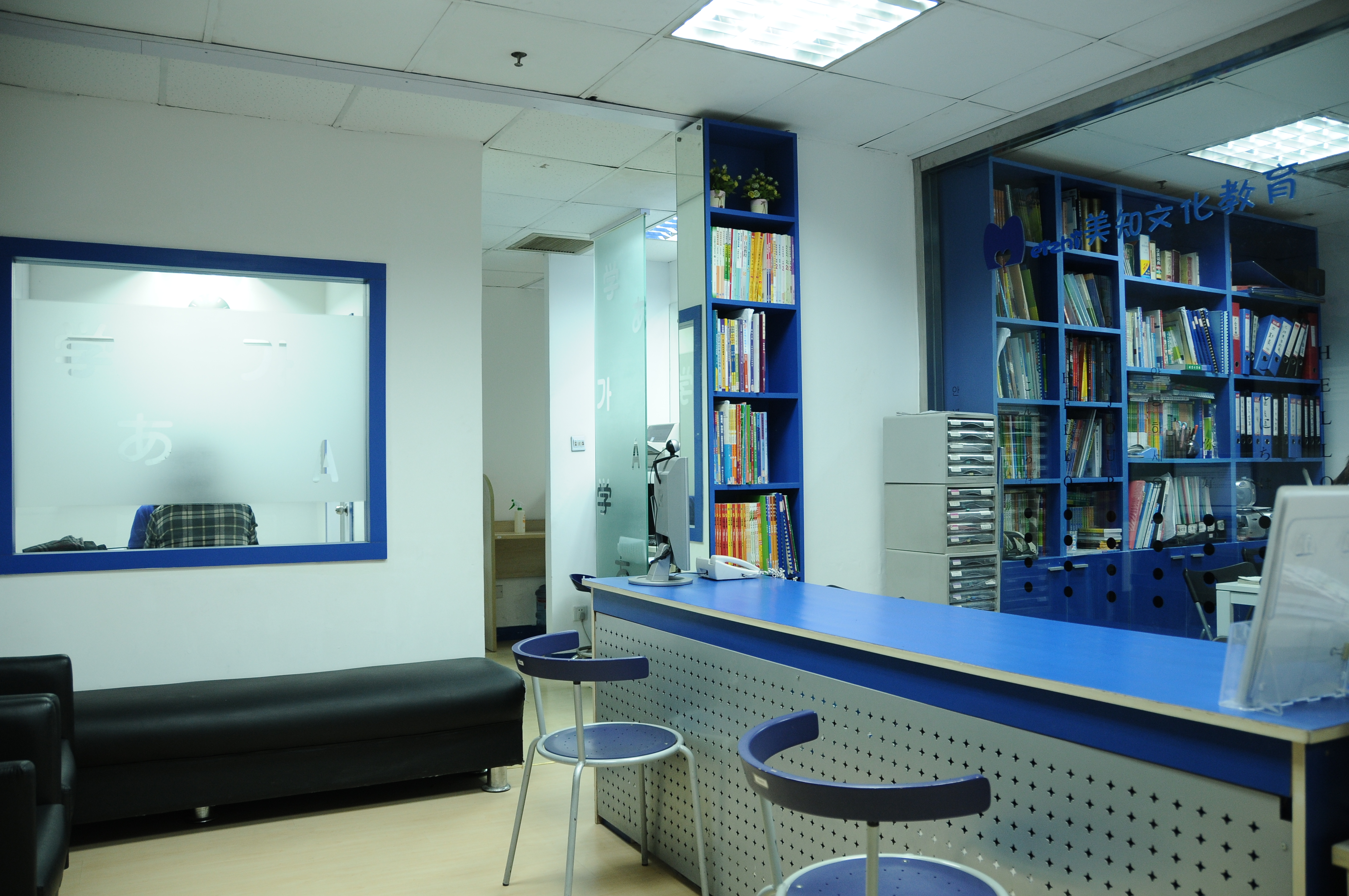 Entrance-Shanghai MEIZHI MANDARIN School since 2004.